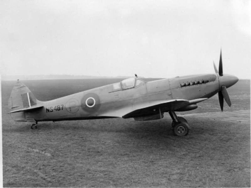 A prototype Supermarine Seafire Mark XV on the ground.